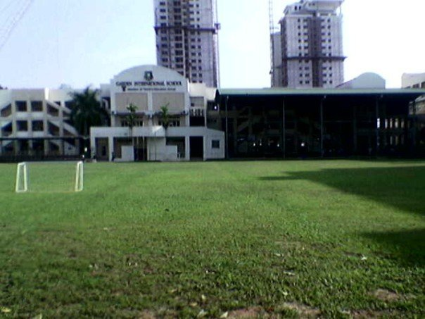 Picture taken by DunsterHouse in 2005